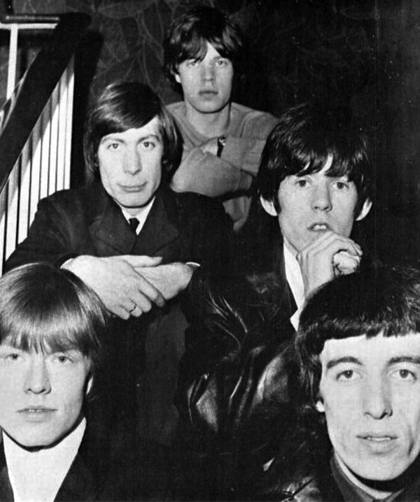 Trade ad for 1965 Rolling Stones' North American tour.